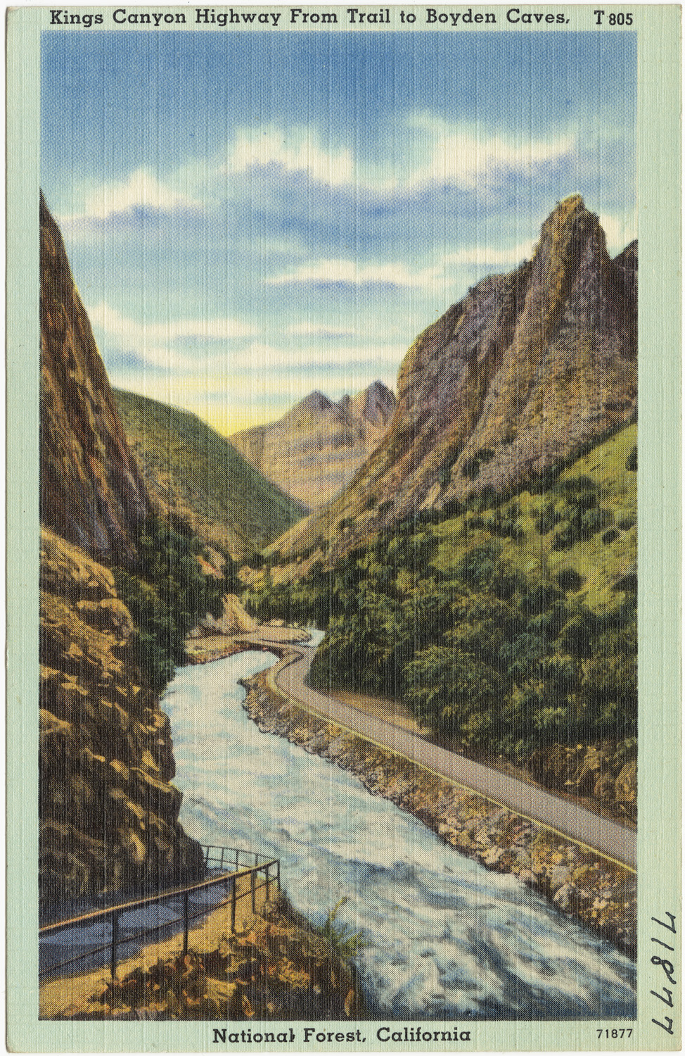 Historical postcard - "Kings Canyon Highway from trail to Boyden Caves, National Forest, California". File description reads "No known restrictions"